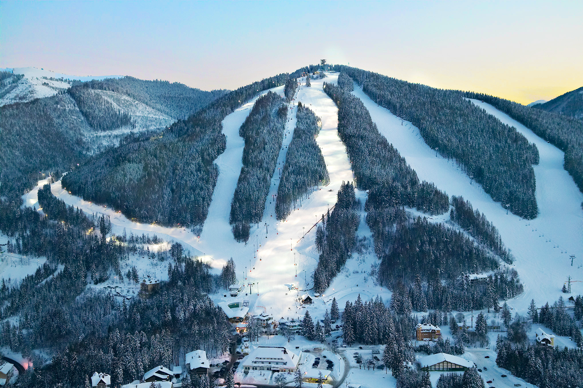 View at slopes of Semmering ski resort (Austria)